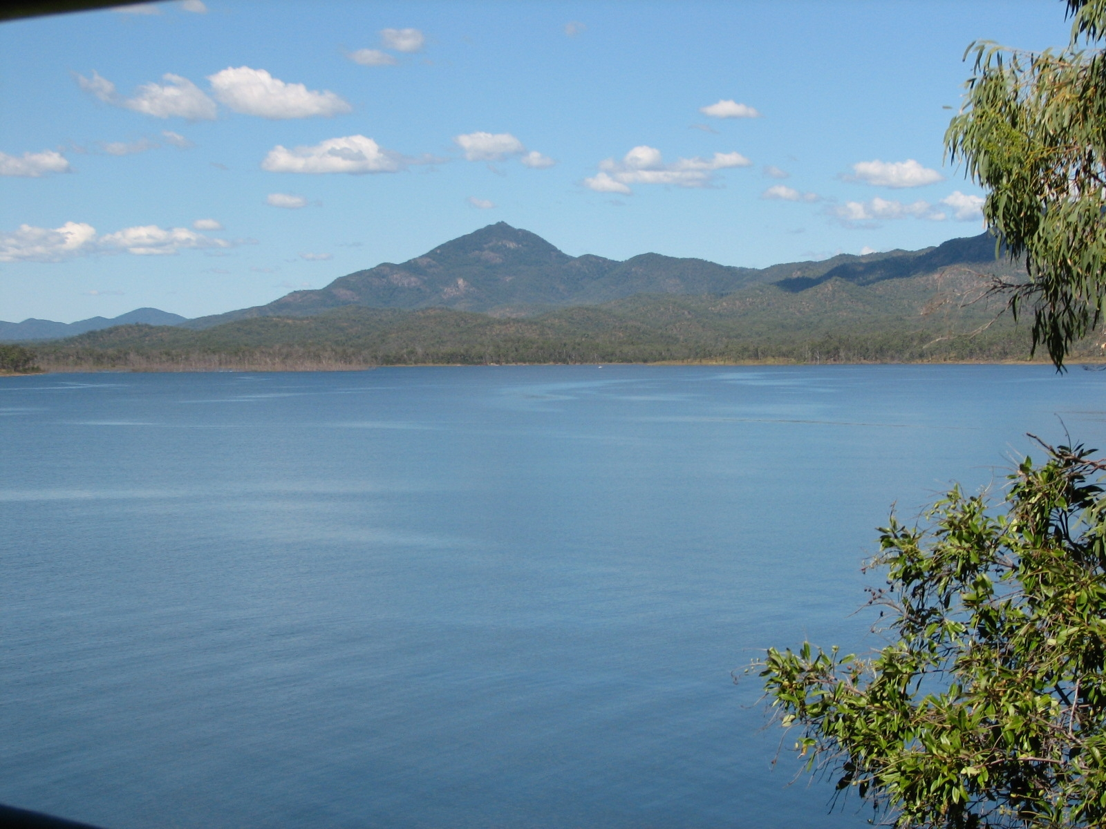 View of Lake Awoonga in Central Queensland, near Gladstone